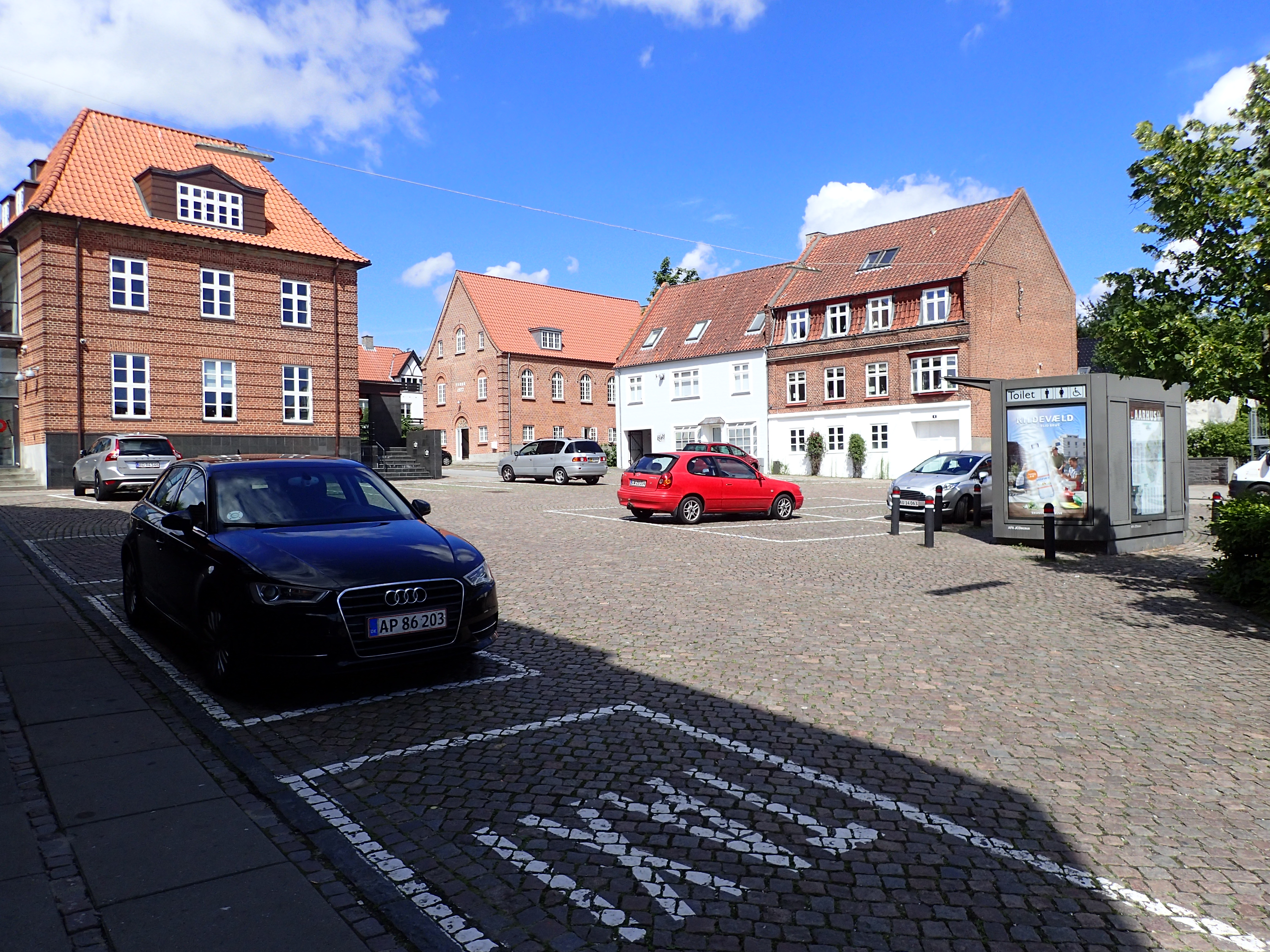 Åbyhøj Torv